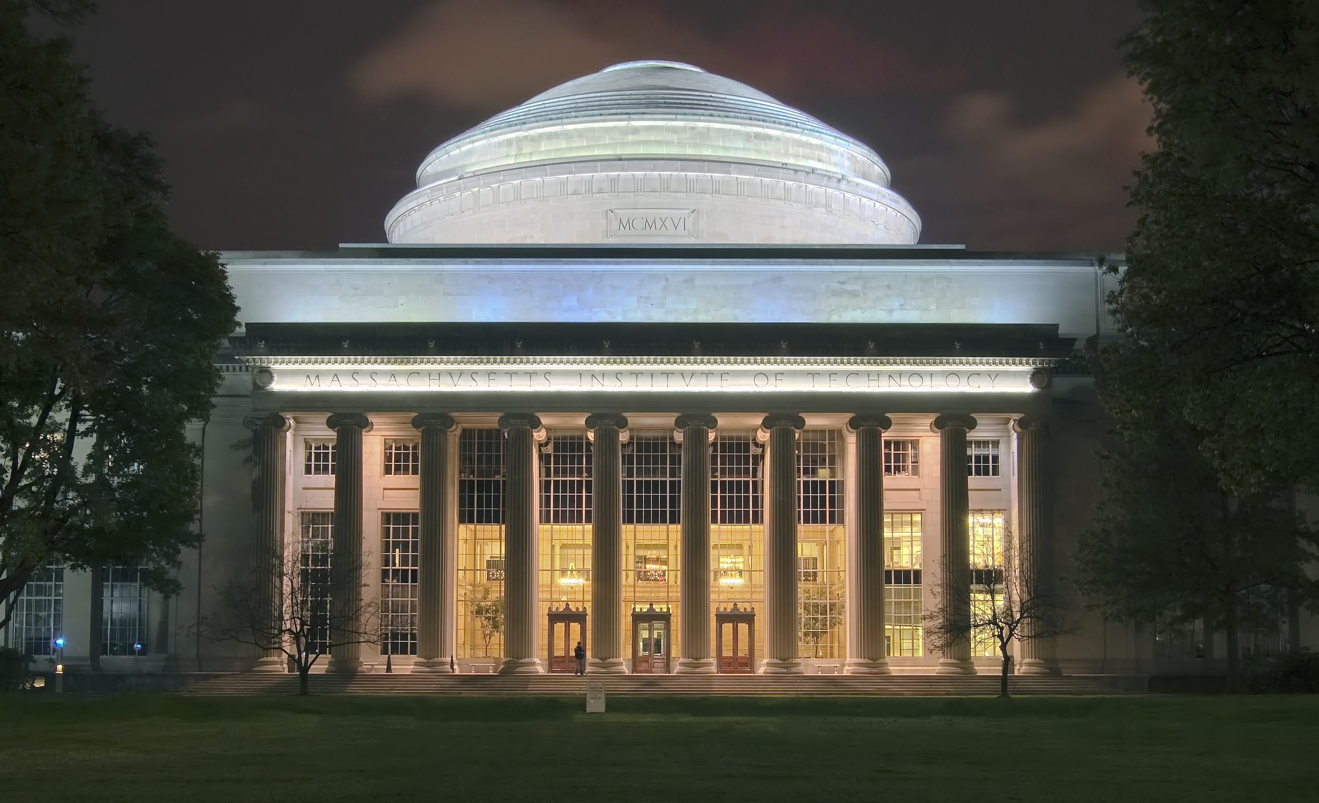 A HDR image of the dome at the MIT campus. This version edited by reducing exposure (to save the highlights), applying highlight recovery (to save highlights), some curves work, noise reduction and some cropping.